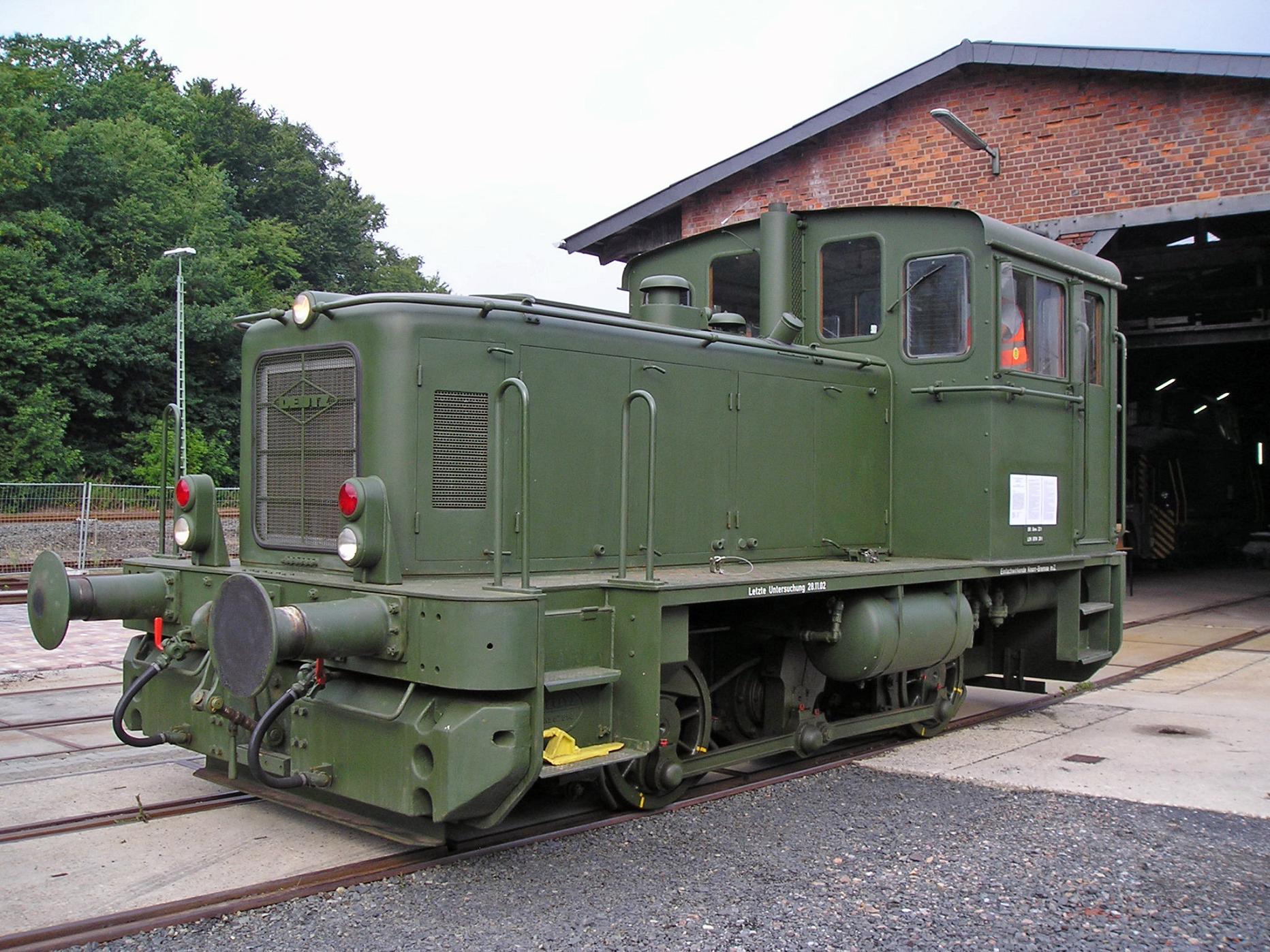 railroad engineering museum in Westerburg: shunting locomotive Deutz KS 230 B